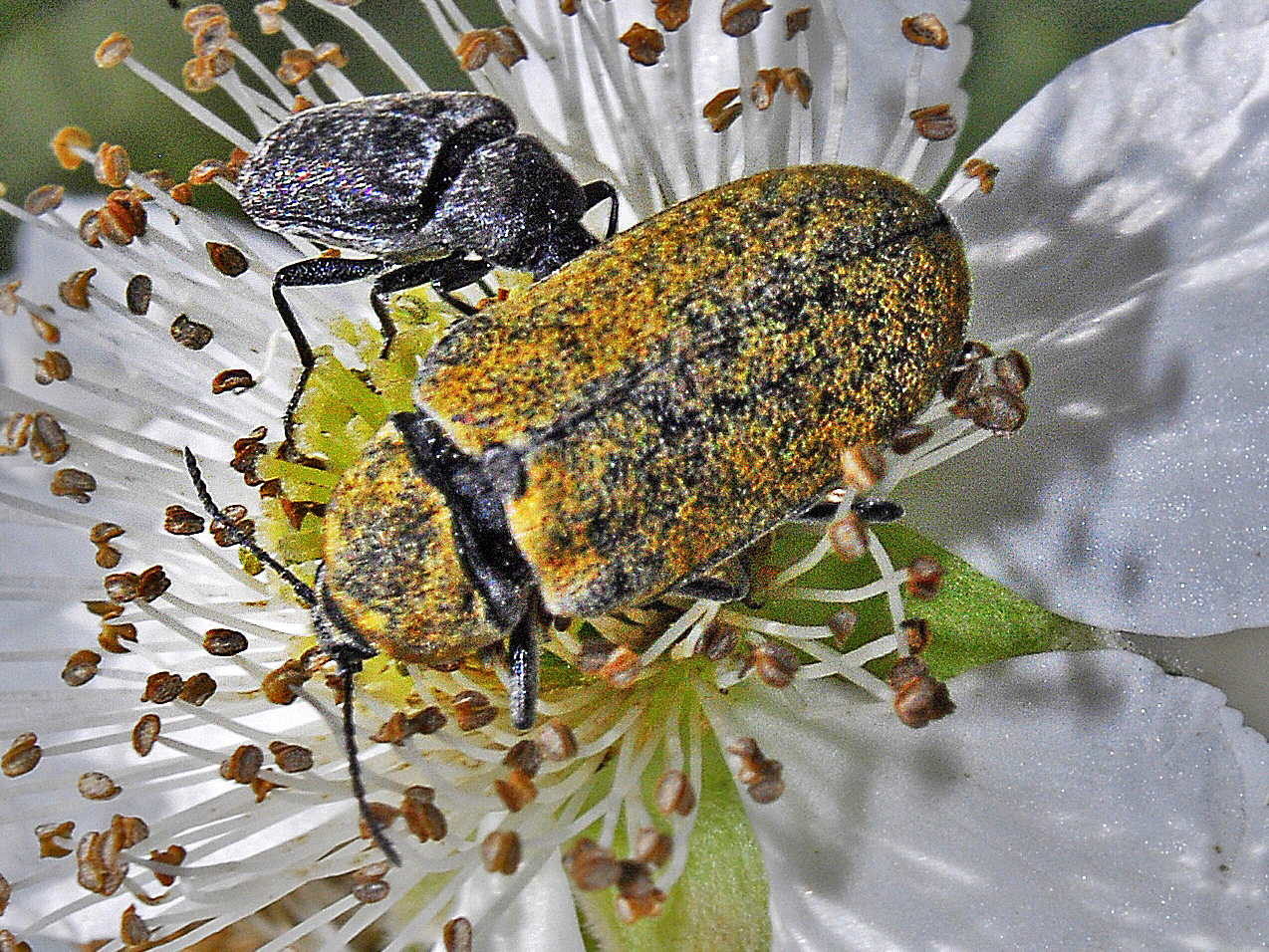 Mycterus umbellatarum. Piani di Praglia, Genova, Italy